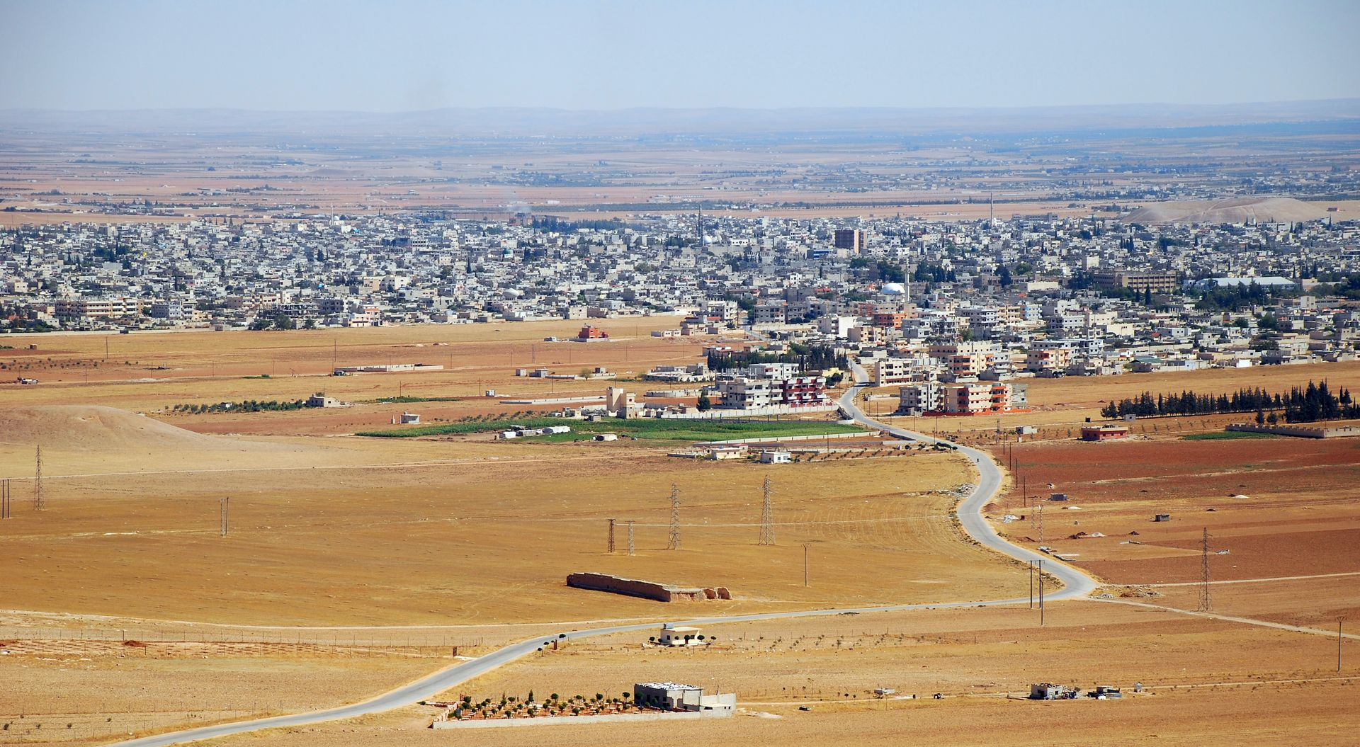 Salamiyya, Syria, city from northwest